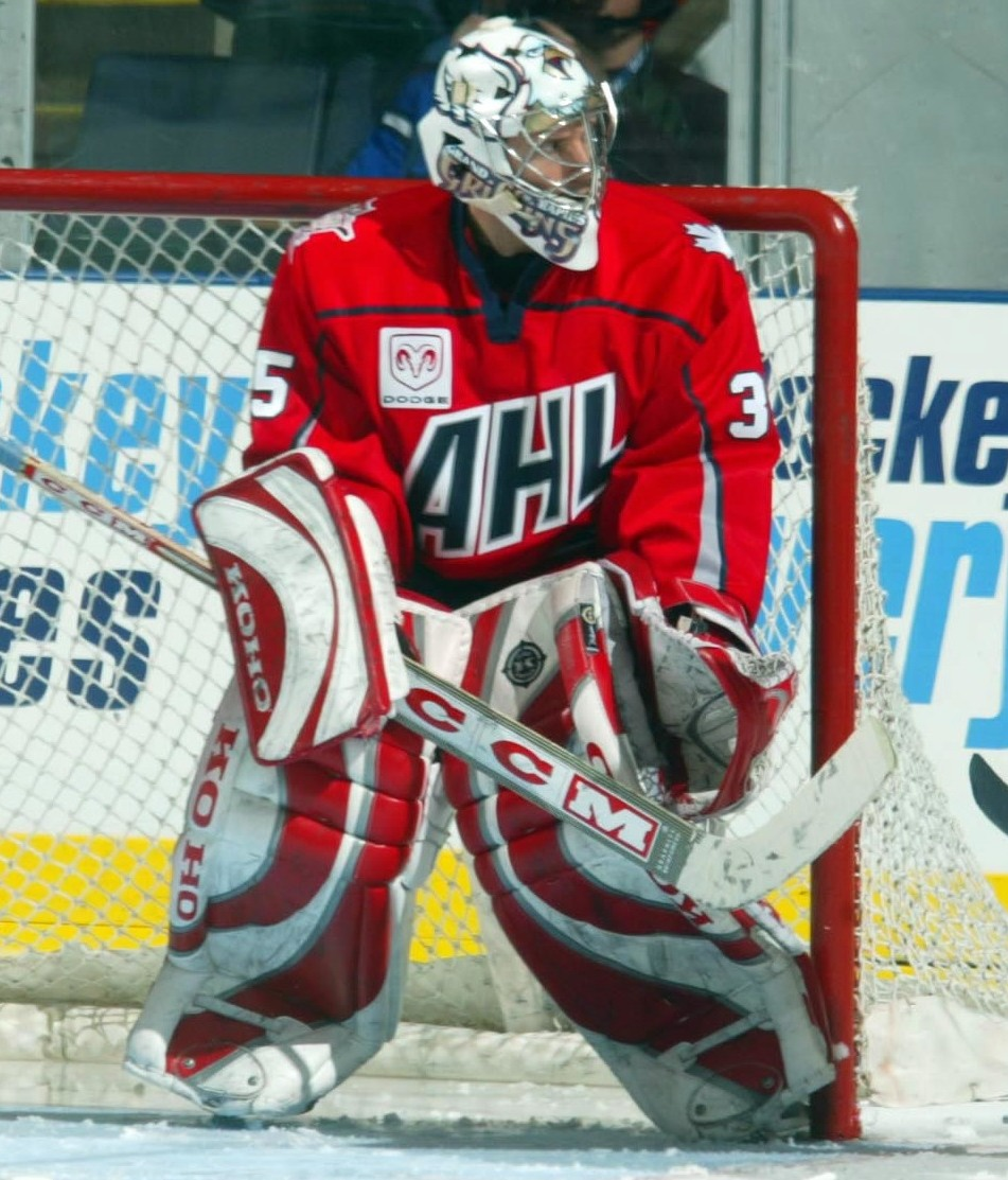 Photo: Jason Pulver/AHL